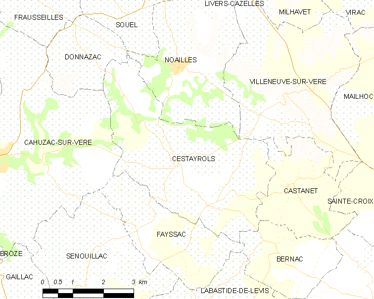 Map of French municipality Cestayrols